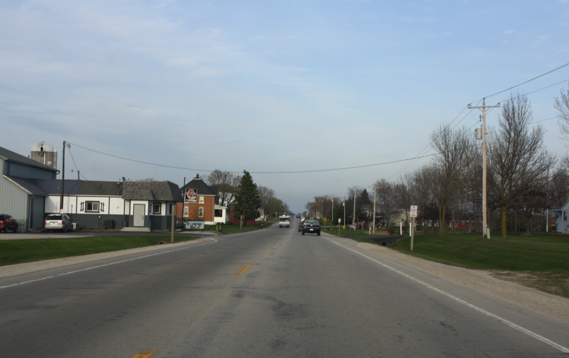 Looking east at downtown Walhain, Wisconsin in Kewaunee County, Wisconsin along Wisconsin Highway 54.